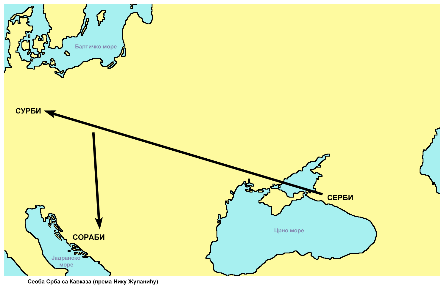 Migration of Serbs from Caucasus (according to Niko Županić).